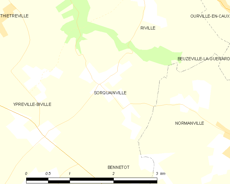 Map of French municipality Sorquainville